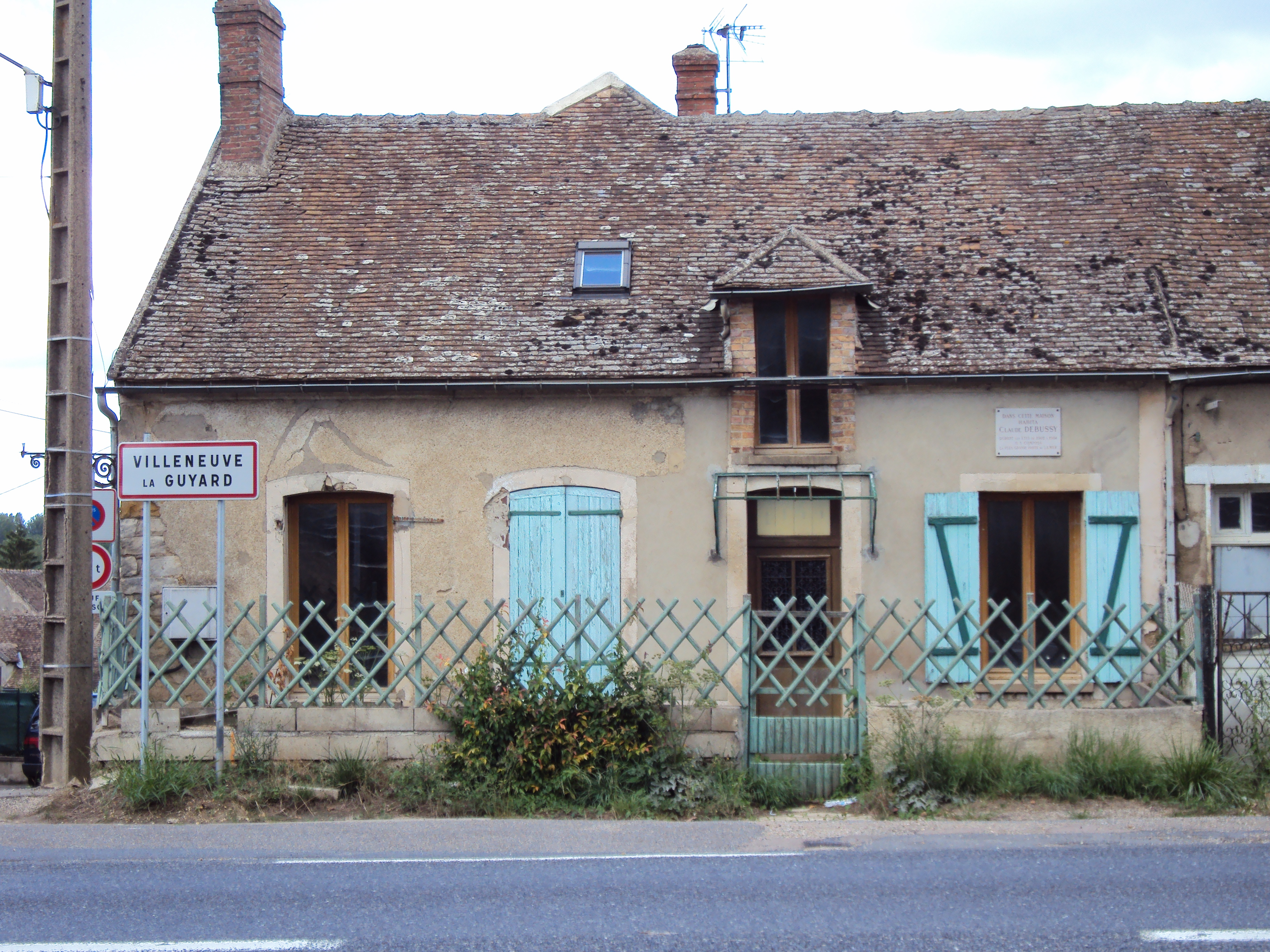 Claude Debussy's home from 1902 à 1904 . He composed most of " the sea" there.